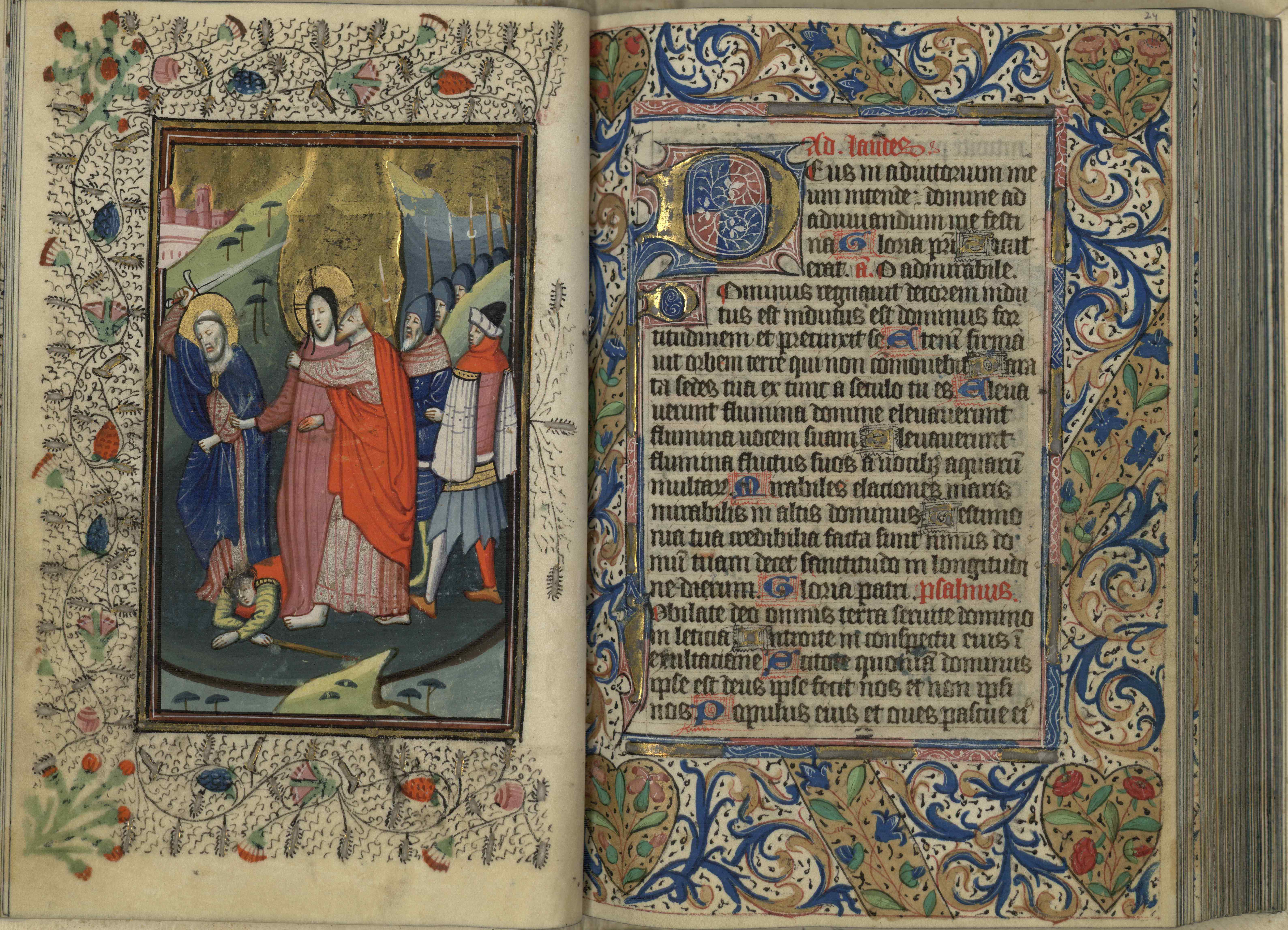 The Book of Hours 15th Century